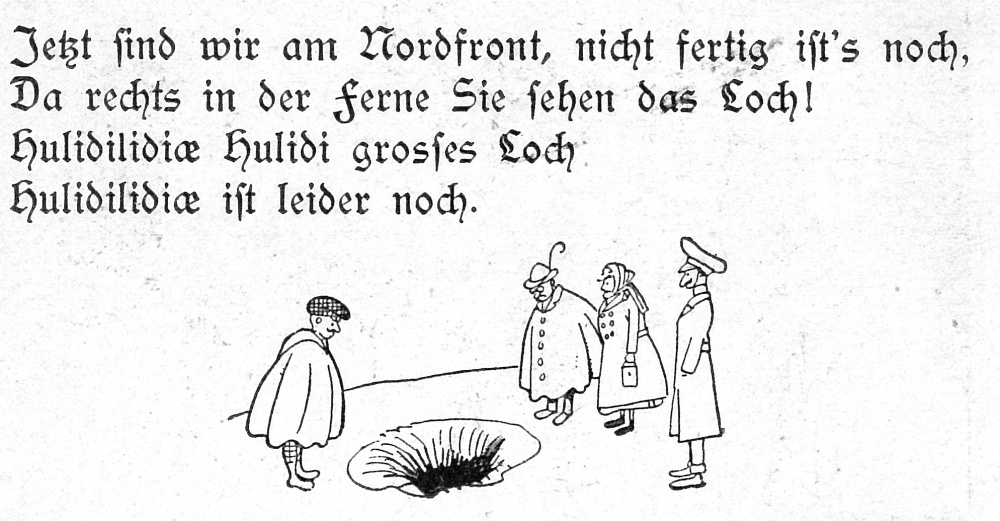 Drawing from Blæksprutten, 1913 making fun of the "gap of the Northern front", the weak point of the fortifications of Copenhagen.